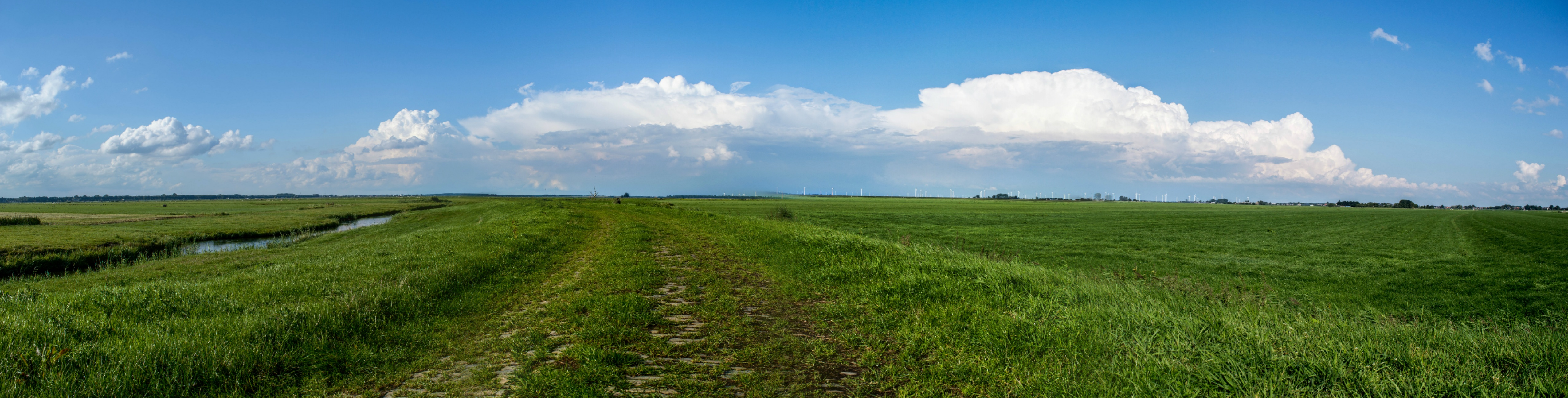 Panorama of thunderstorms (including one supercell) in the Eemspolder near Eemnes, The Netherlands.